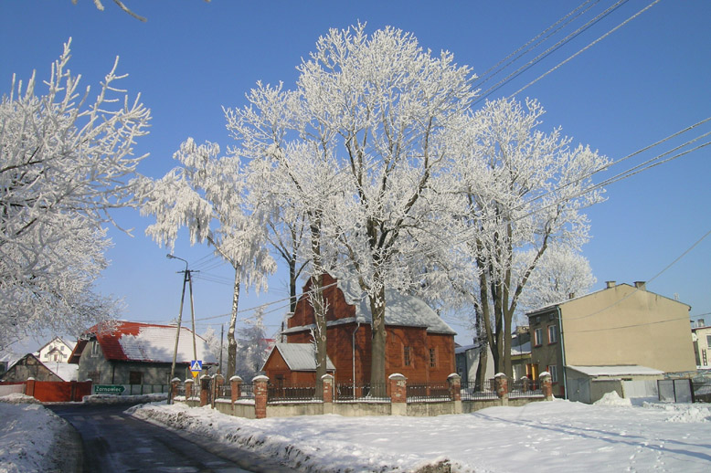 Old wooden church in Wolbrom.